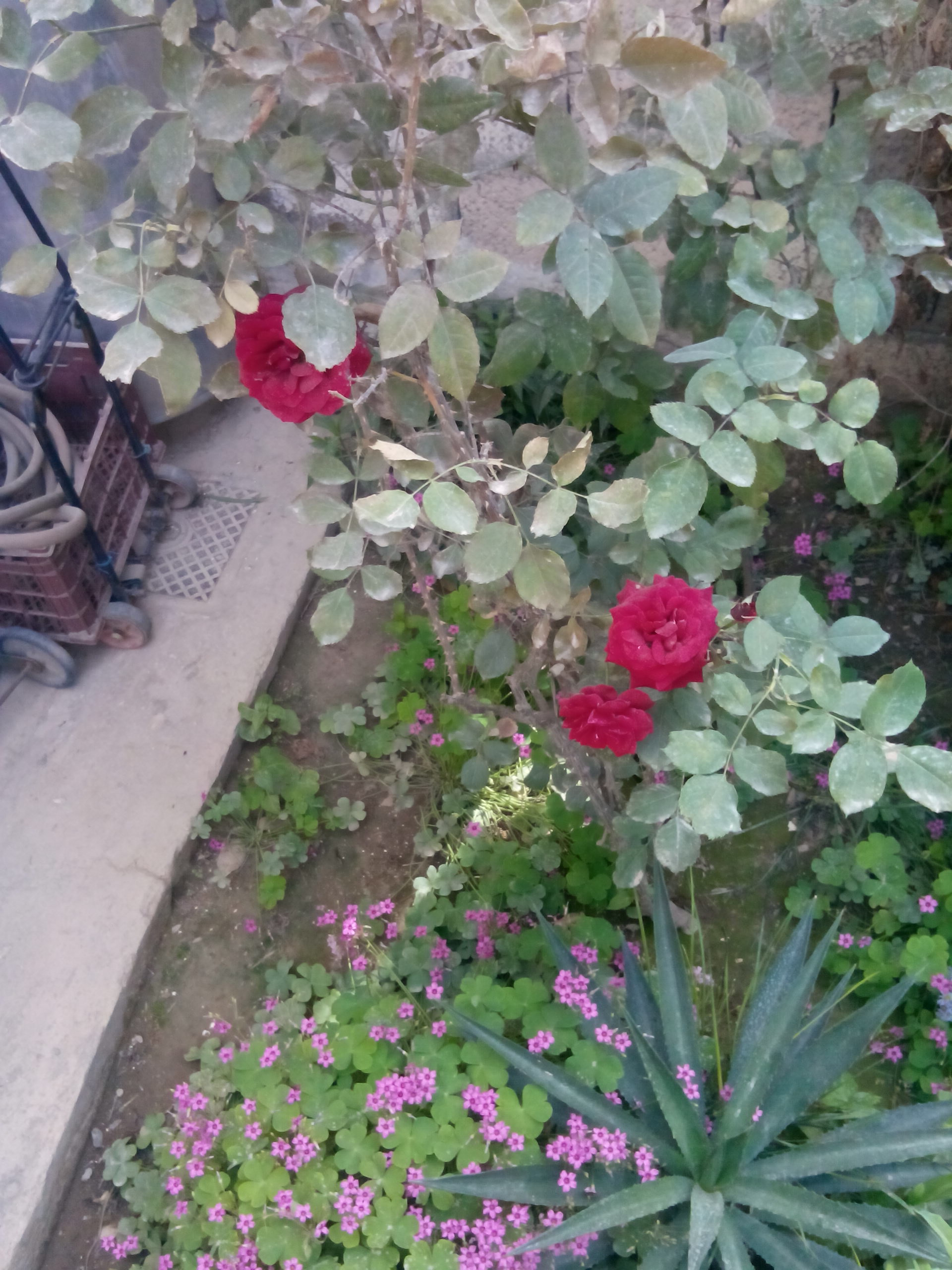 Red Flower's in Baghdad